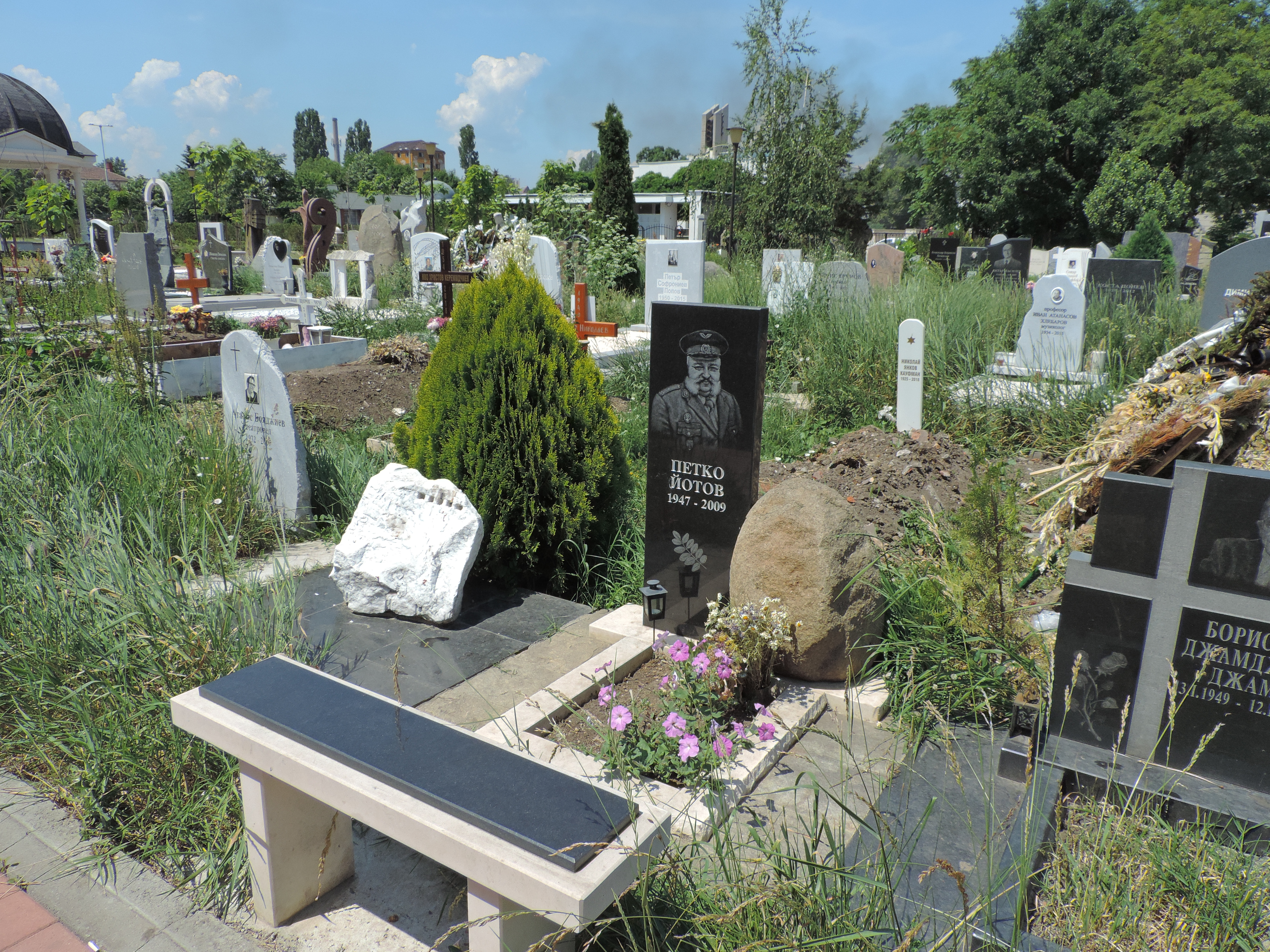 Central Sofia Cemetery